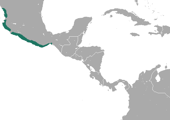 Pygmy Spotted Skunk (Spilogale pygmaea) range, with colonial borders